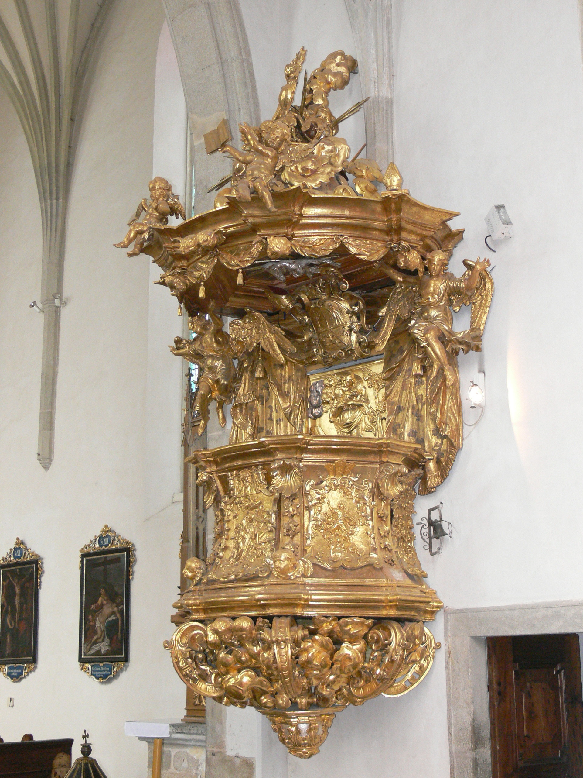 Mary Assumption church in Kájov, Czech Republic. Baroque pulpit ( 1742 ).